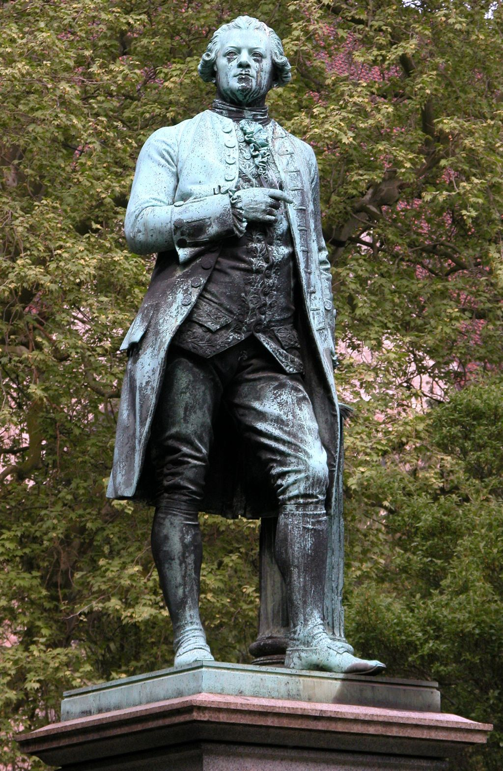 Brunswick, Germany: Lessing-Monument designed by Ernst Rietschel.